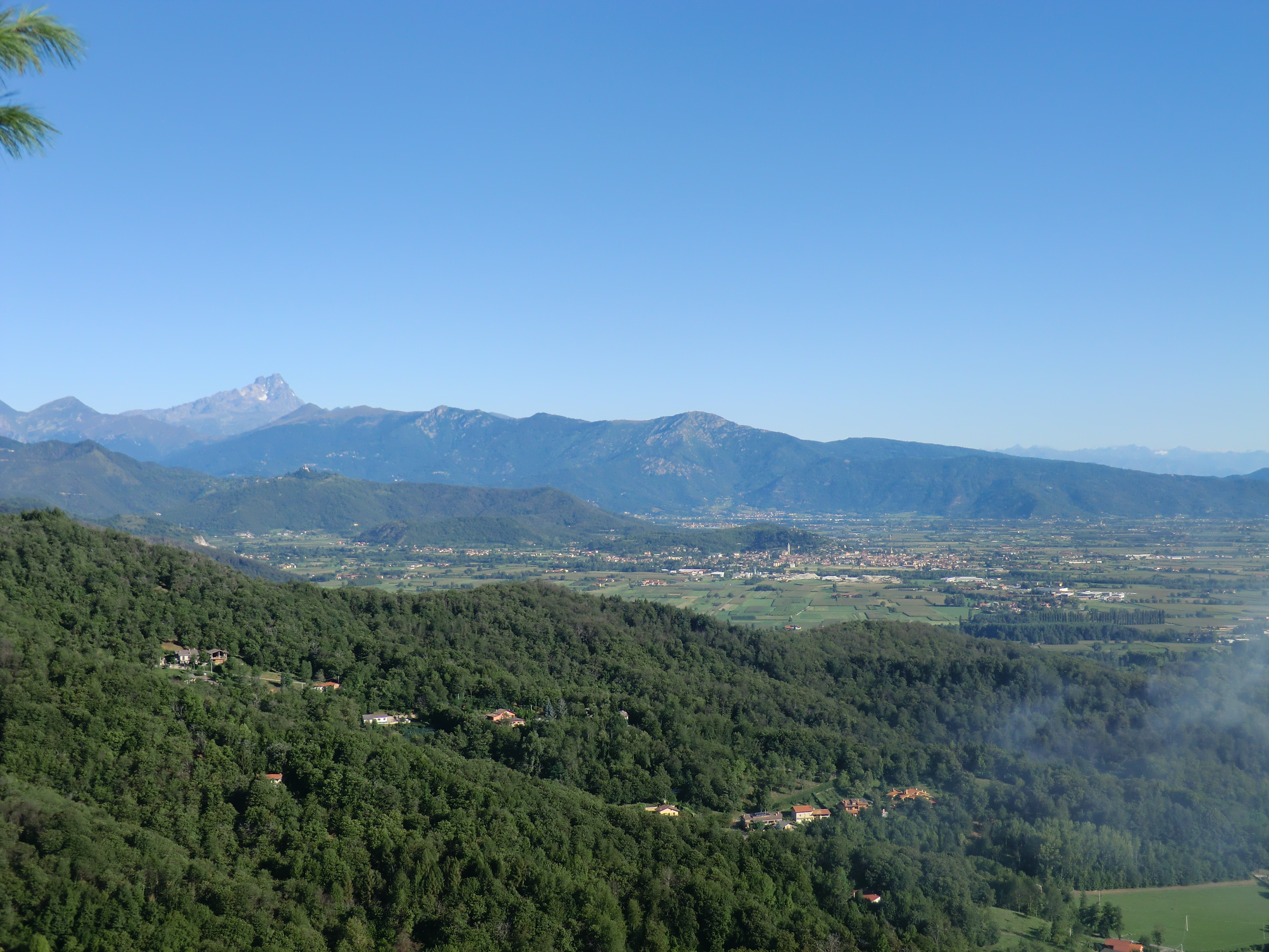 Caraglio, valle Grana, Monviso